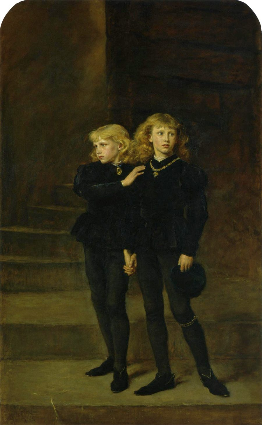 "The Princes in the Tower"